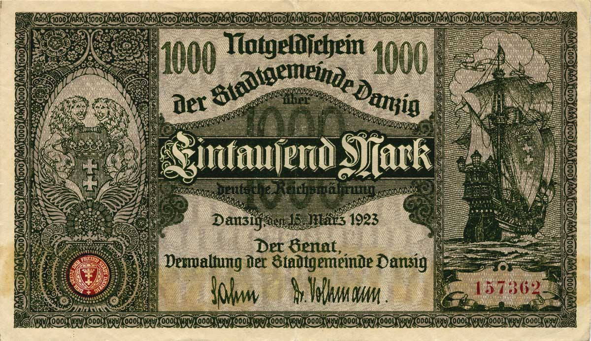 1000 mark de Dantzig, 1923